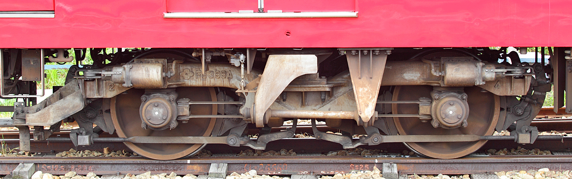 Sumitomo Metal Industries type FS-398A bogie truck of Meitetsu 100 series EMU ( Mo 112 )